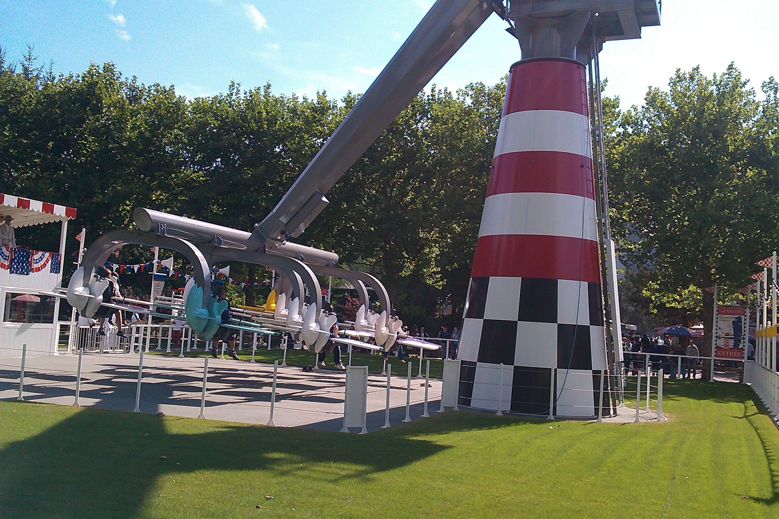 Sky Fly of Nigloland called Air Meeting